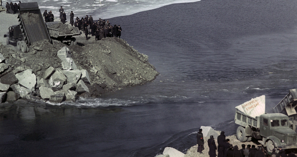 Construction site of Krasnoyarsk Hydroelectric station. Yenisei damming.